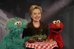 Hillary Clinton filming PSA